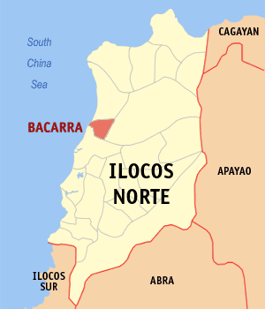 Map of Ilocos Norte showing the location of Bacarra